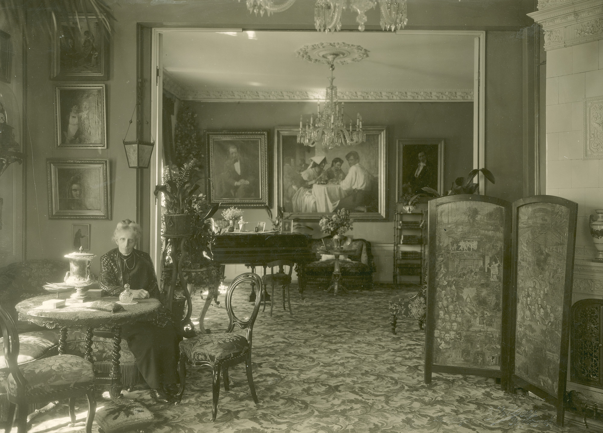 The Melchior family's apartment on Højbro Plads in Copenhagen, Denmark